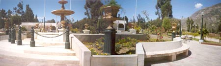 Plaza de Armas de Acopampa — of the province Carhuaz in Ancash Region, Peru.